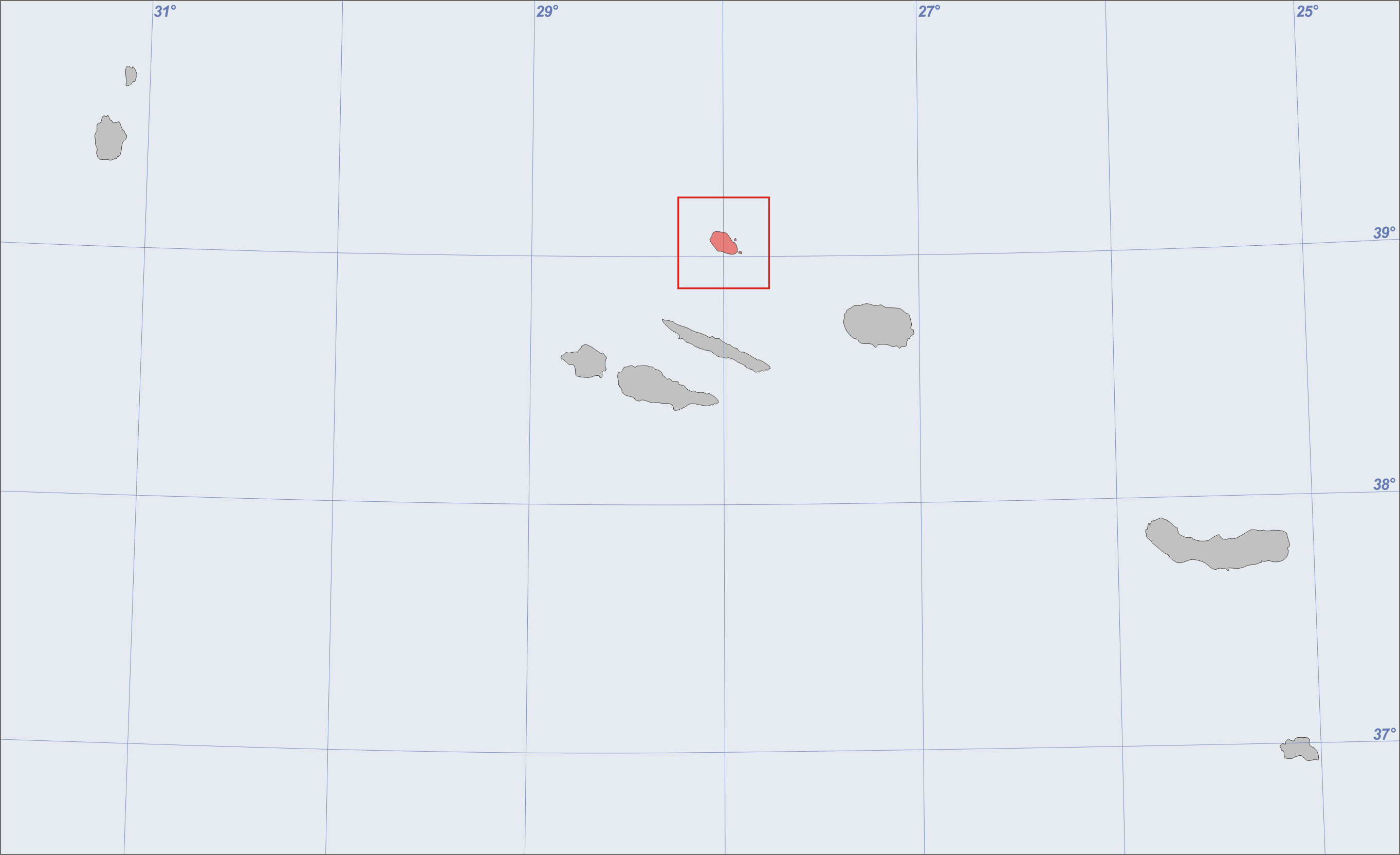 Position of Graciosa Island, Azores drawn by varp